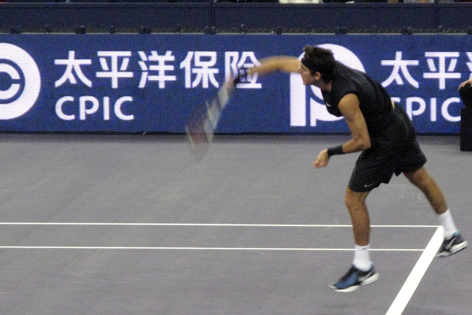 Juan Martín del Potro at 2008 Tennis Masters Cup in Shanghai, China